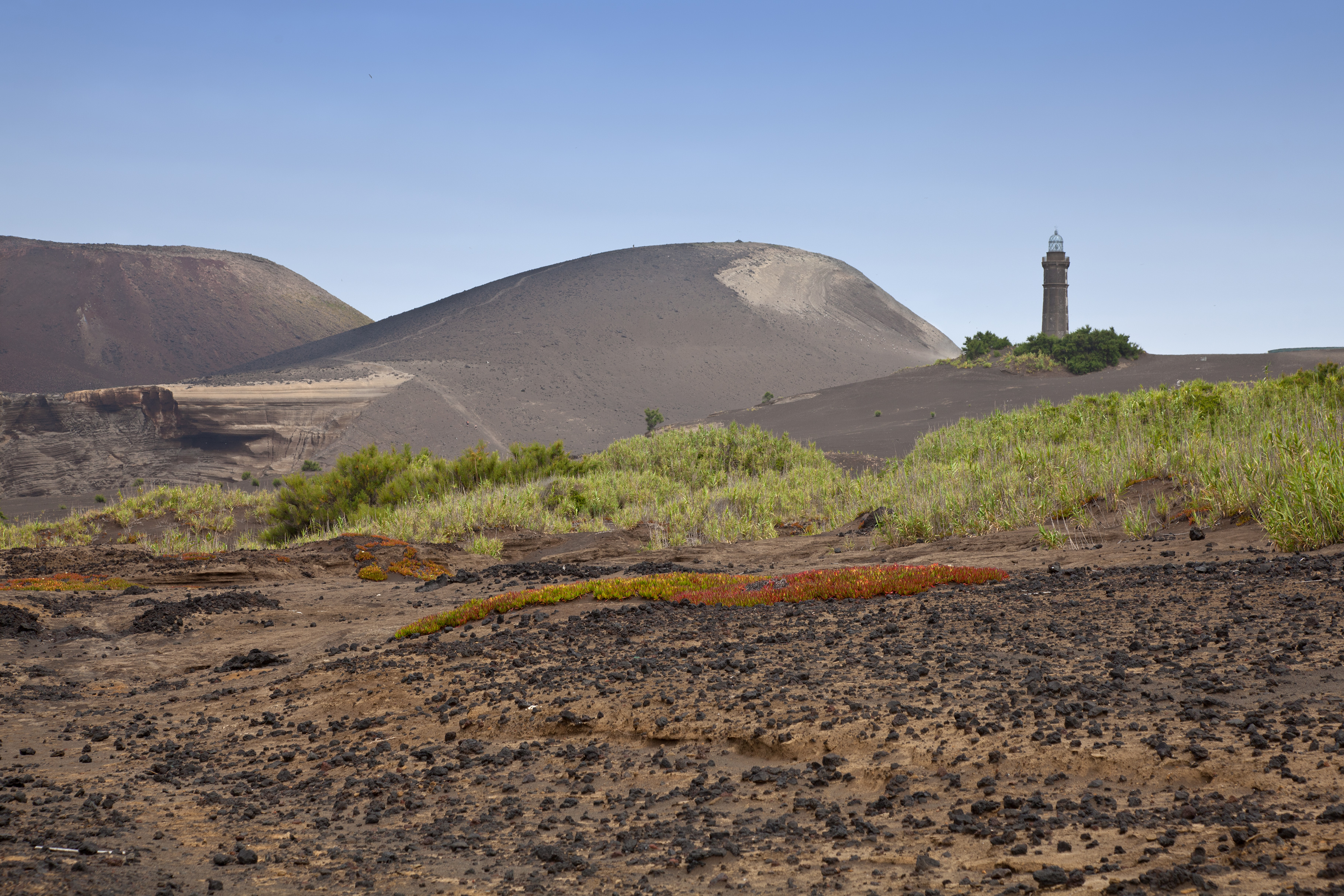 Volcano Capelinhos and its lighthouse, Faial Island, Azores, Portugal